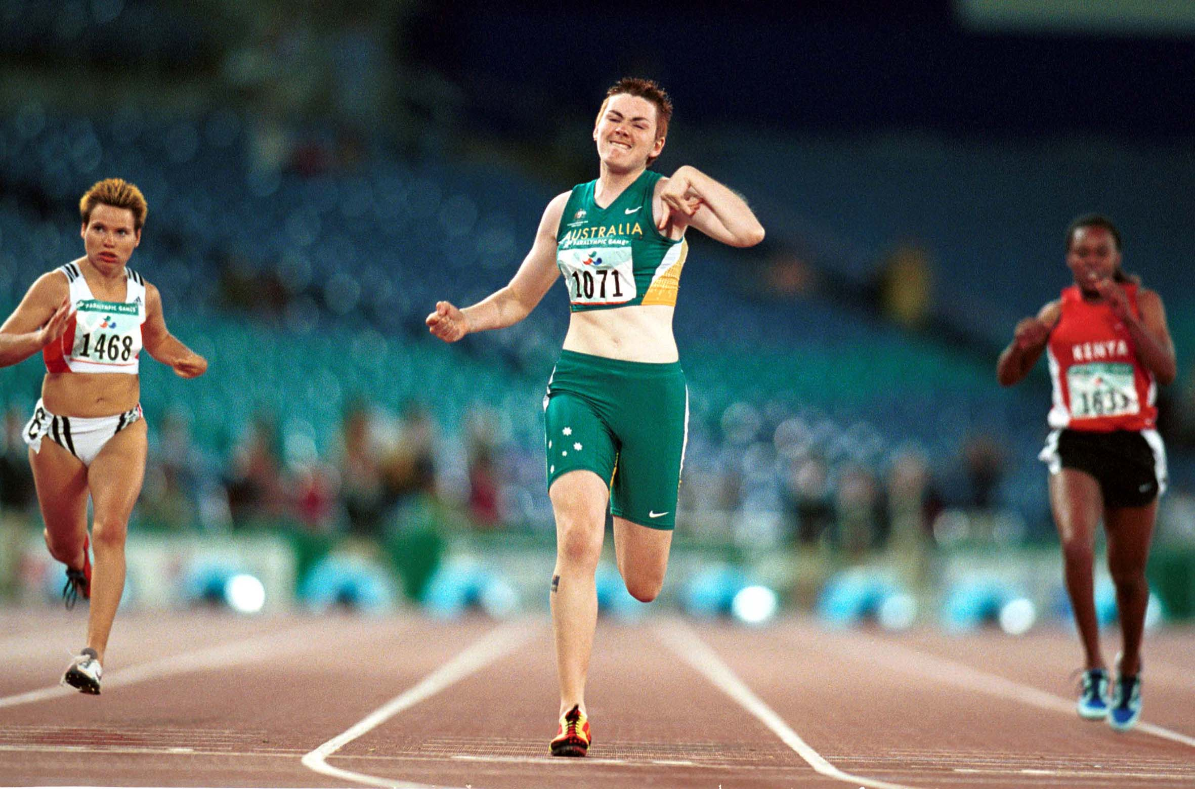 Action shot of Australian track athlete Lisa McIntosh during the 100 m at the 2000 Sydney Paralympic Games